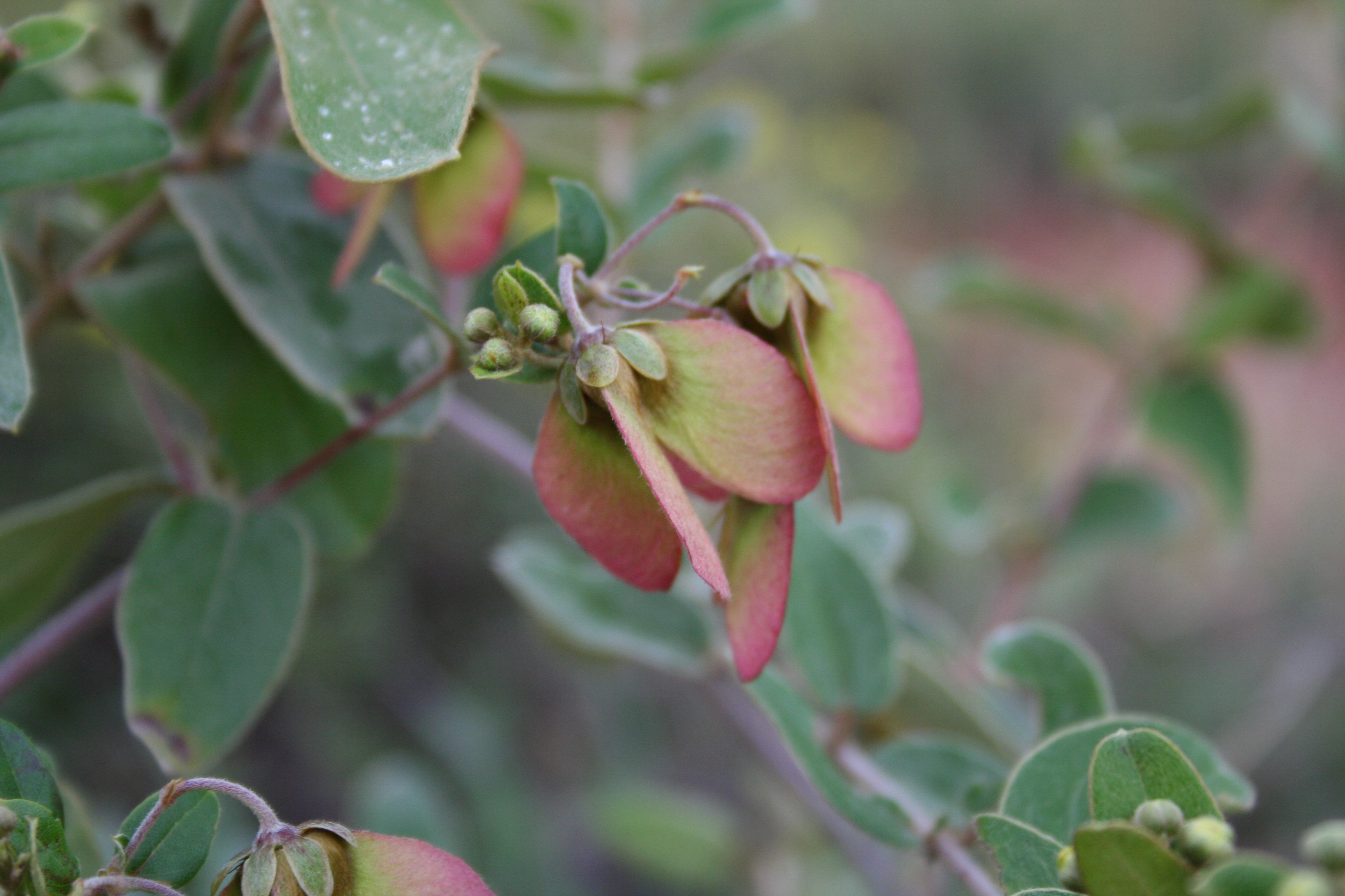 Sphedamnocarpus galphimiaefolius, Mountain Sanctuary Park, South Africa